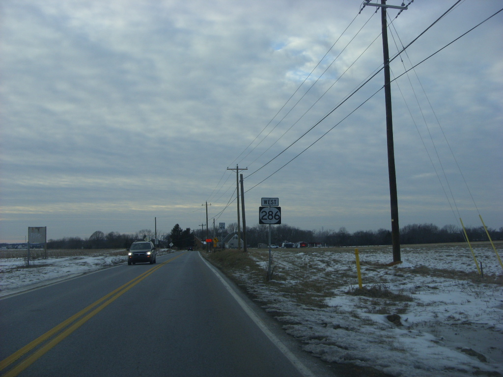 Delaware Route 286 westbound past Delaware Route 15